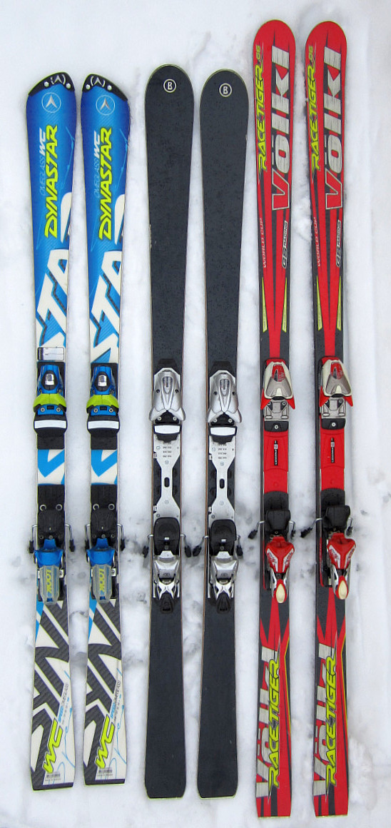 Various shaped skis, from right to left: Giant slalom race ski, then FIS legal (2006 Völkl Racetiger GS Racing), length 193 cm, sidecut 102-66-88, radius 21 m Cross carver (2011 Bogner Pure Black) 171 cm, Sidecut 119-70-100, radius 16 m Slalom race ski, FIS legal (2013 Dynastar Speed Omeglass WC), length 165 cm, sidecut 118-66-101, radius 13 m